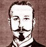 General cubano